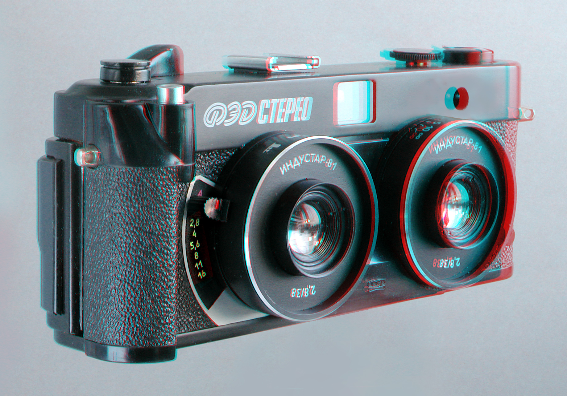 Ukrainian-made stereoscopic camera shown as anaglyph image